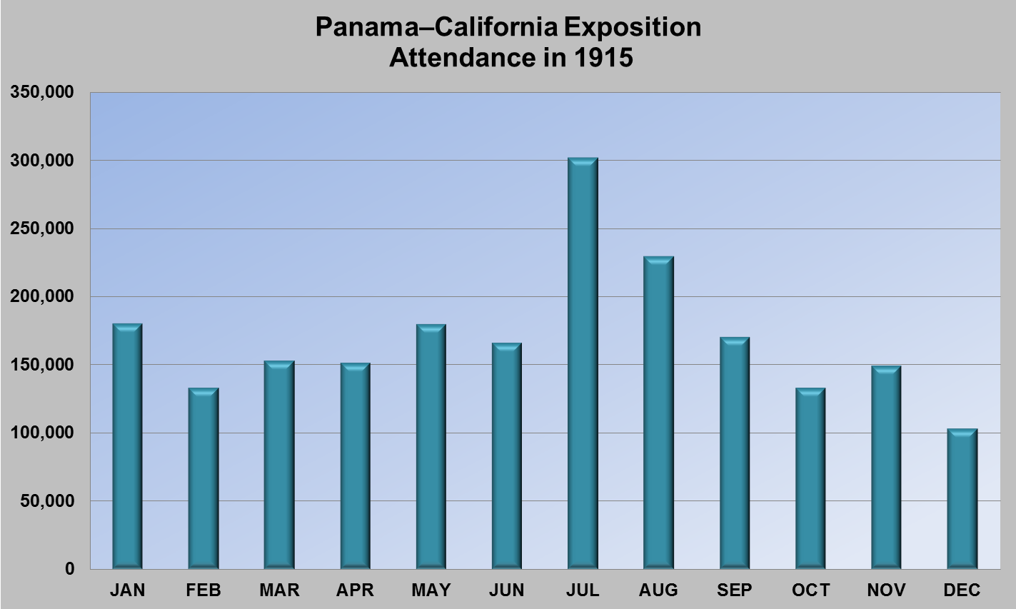 Bar chart detailing the monthly attendance at the Panama-California Exposition in 1915 in Balboa Park, San Diego, California. The total year's attendance was 2,050,030.